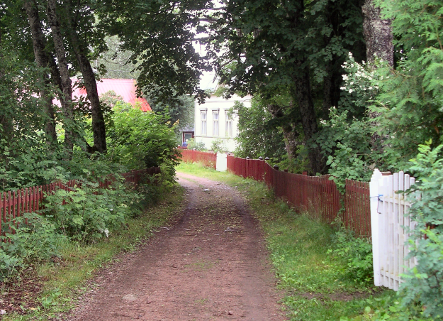 A road in Kaunissaari island in Pyhtää, Finland